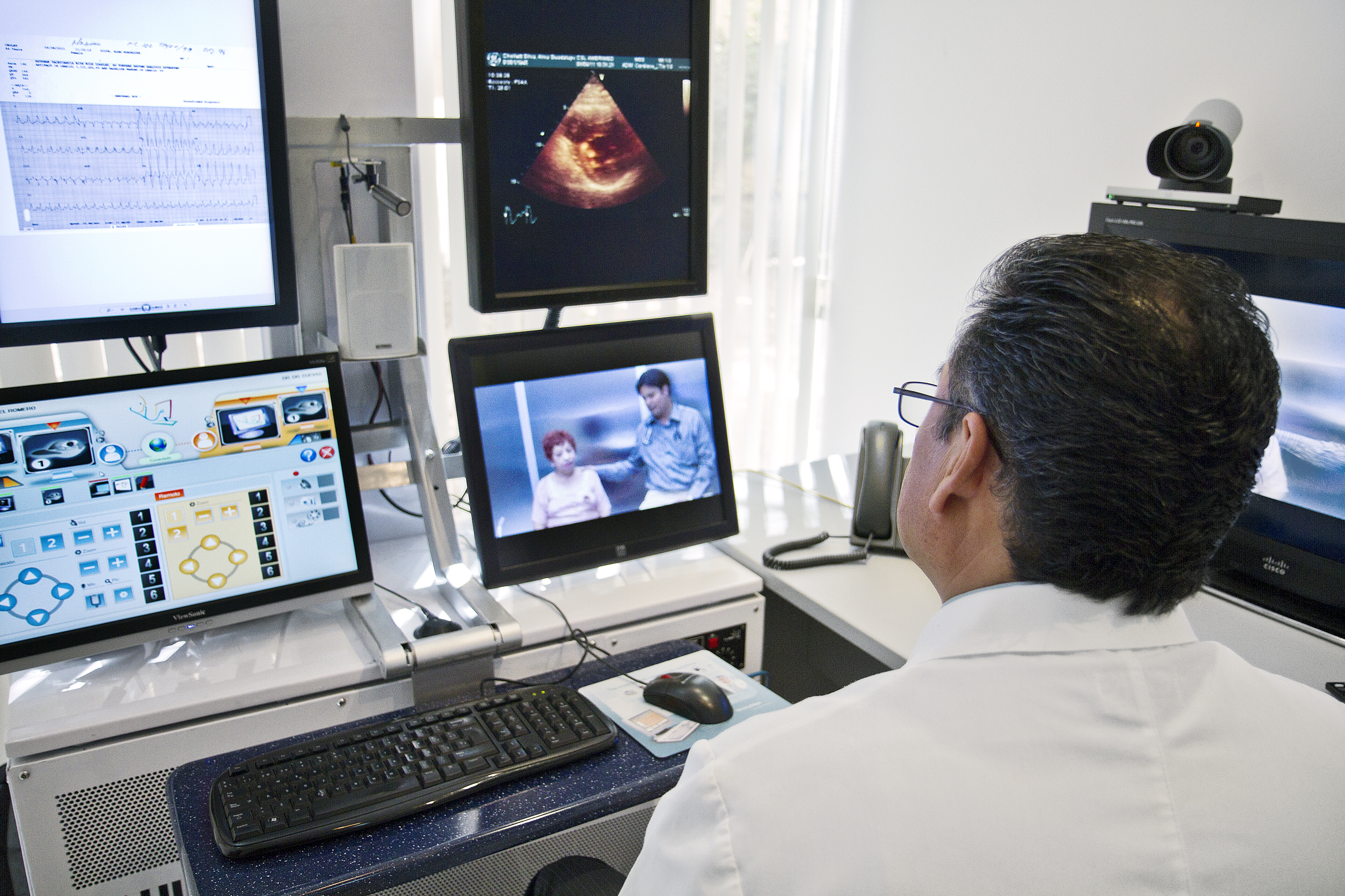 Dr. Juan Manuel Romero, a cardiologist at a hospital in Ciudad Obregon in Sonora, Mexico, engages in a pre-op consultation with Alma Guadalupe Xoletxilva and her doctor, Edgar Cuevas, who are 400 miles away in La Paz, Baja California. Besides enabling doctors who are geographically separated to hear and see each other while consulting, patient information such as charts and scans can be shared in seconds. Intel Free Press story: Virtual Medicine Extends Care Anywhere. Telemedicine carts help deliver care to patients in rural and remote locations across Mexico.